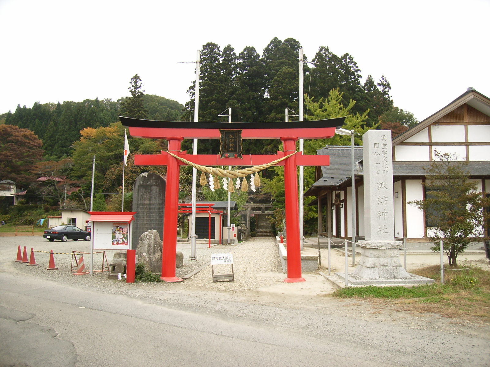 Torii of Suwa-jinja (Shito shrine) in Kami-ayashi, Aoba ward, Sendai, Miyagi prefecture, Japan.